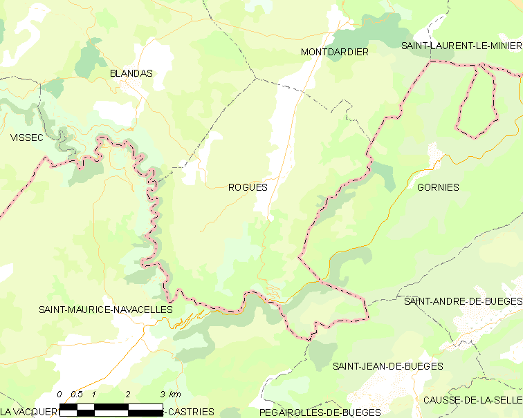 Map commune FR insee code 30219.png - Rogues